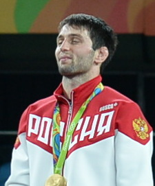 2016 Summer Olympics, Men's Freestyle Wrestling 65 kg awarding ceremony